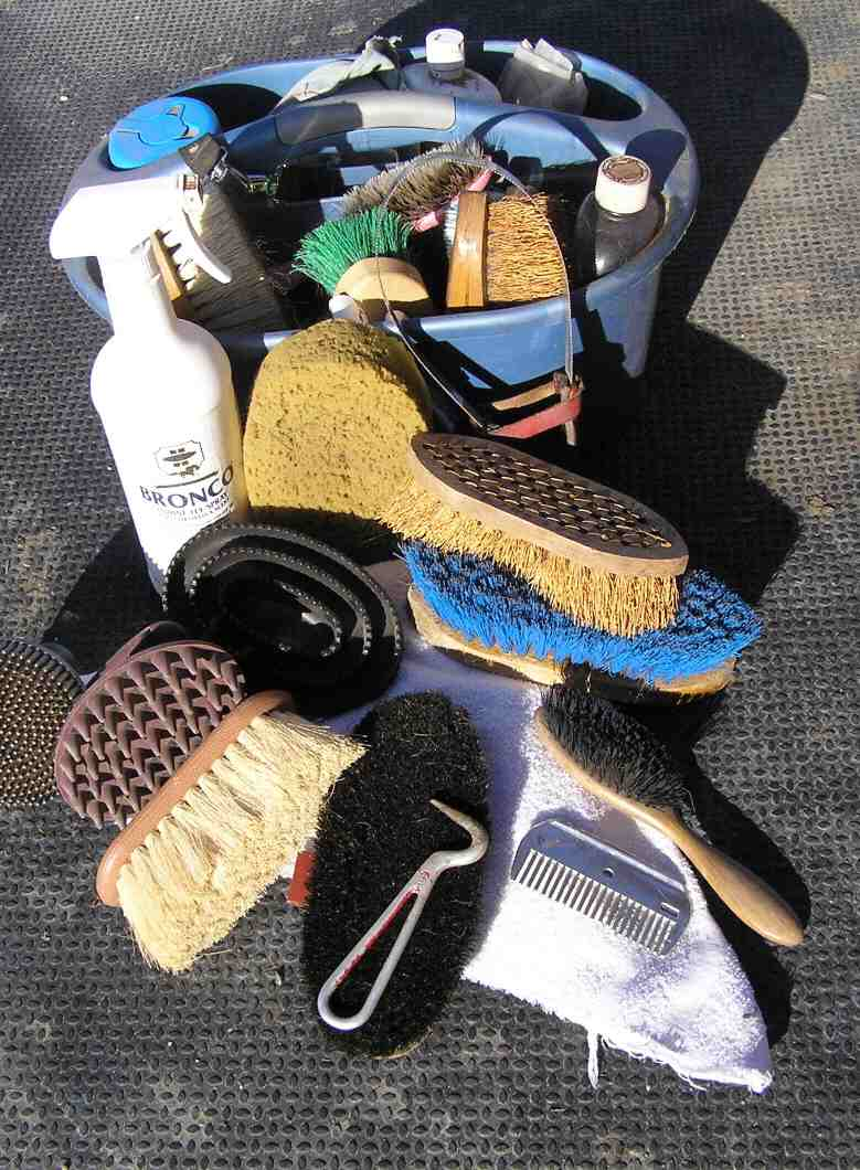 Various brushes and other tools used for grooming horses